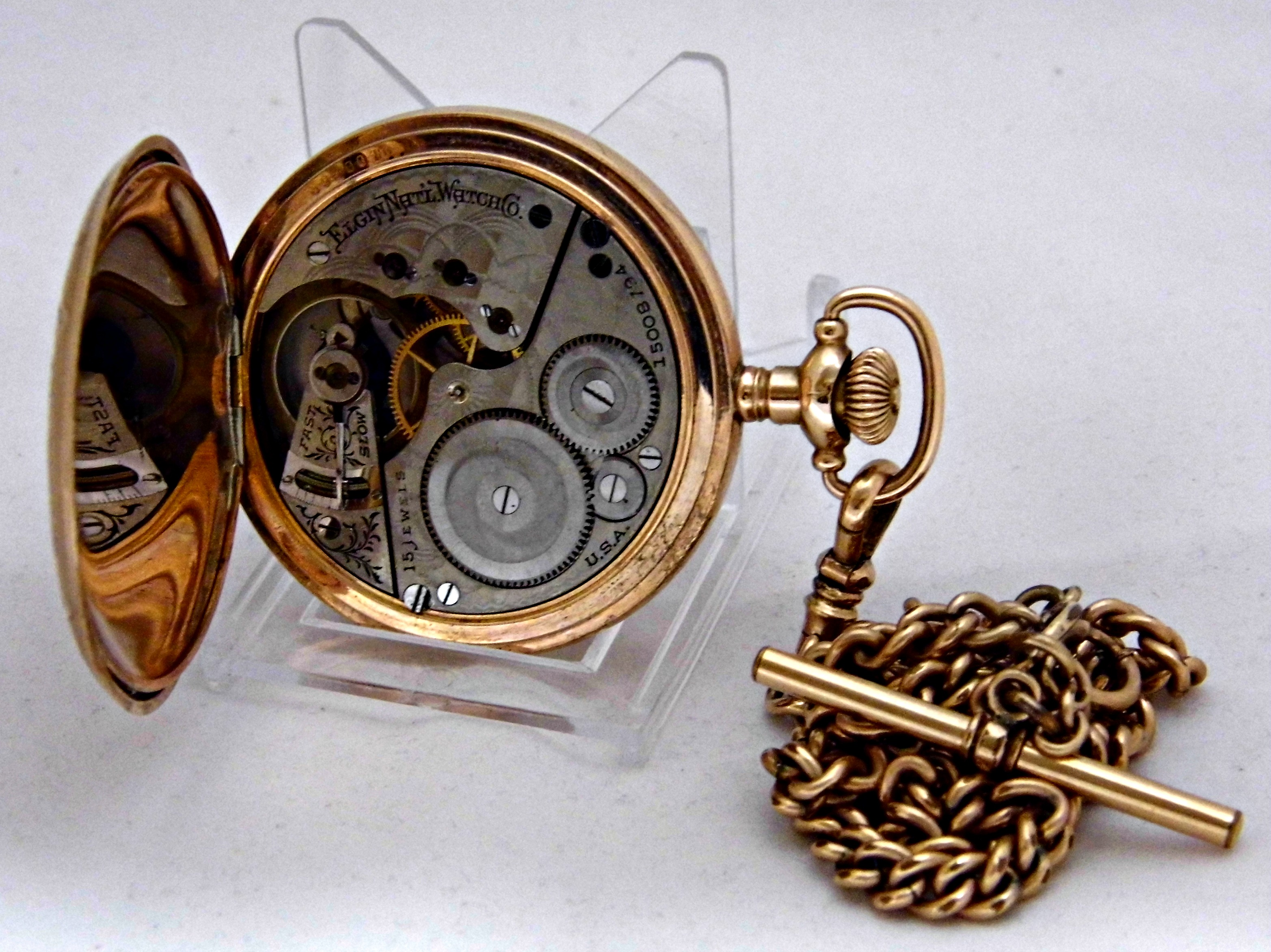 Vintage Elgin Gold-Filled Pocket Watch, Hunter Case, Size 16s, Pendant Set, 15 Jewels, Circa 1909